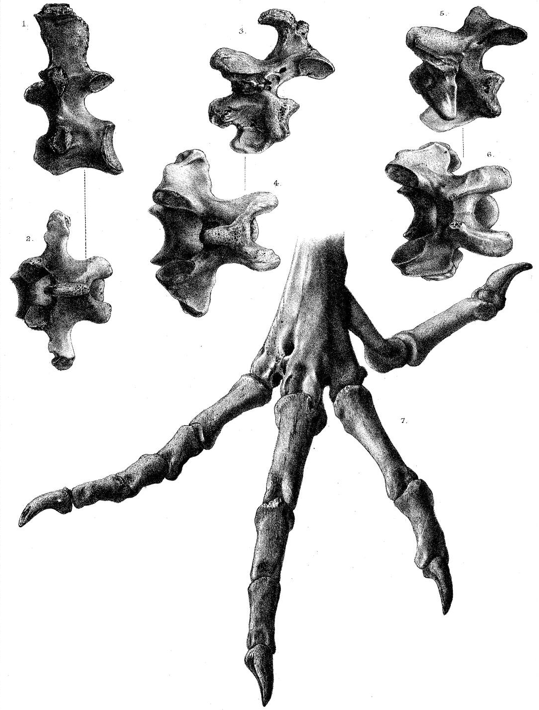 Eighteenth, thirteenth, and twelfth vertebrae and left foot of Pezophaps.